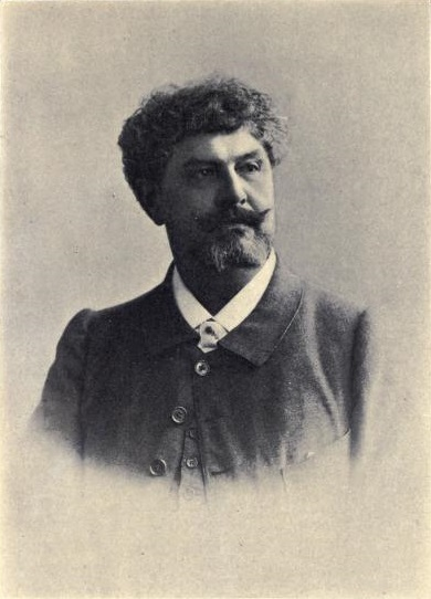 Portrait of Jean Richepin